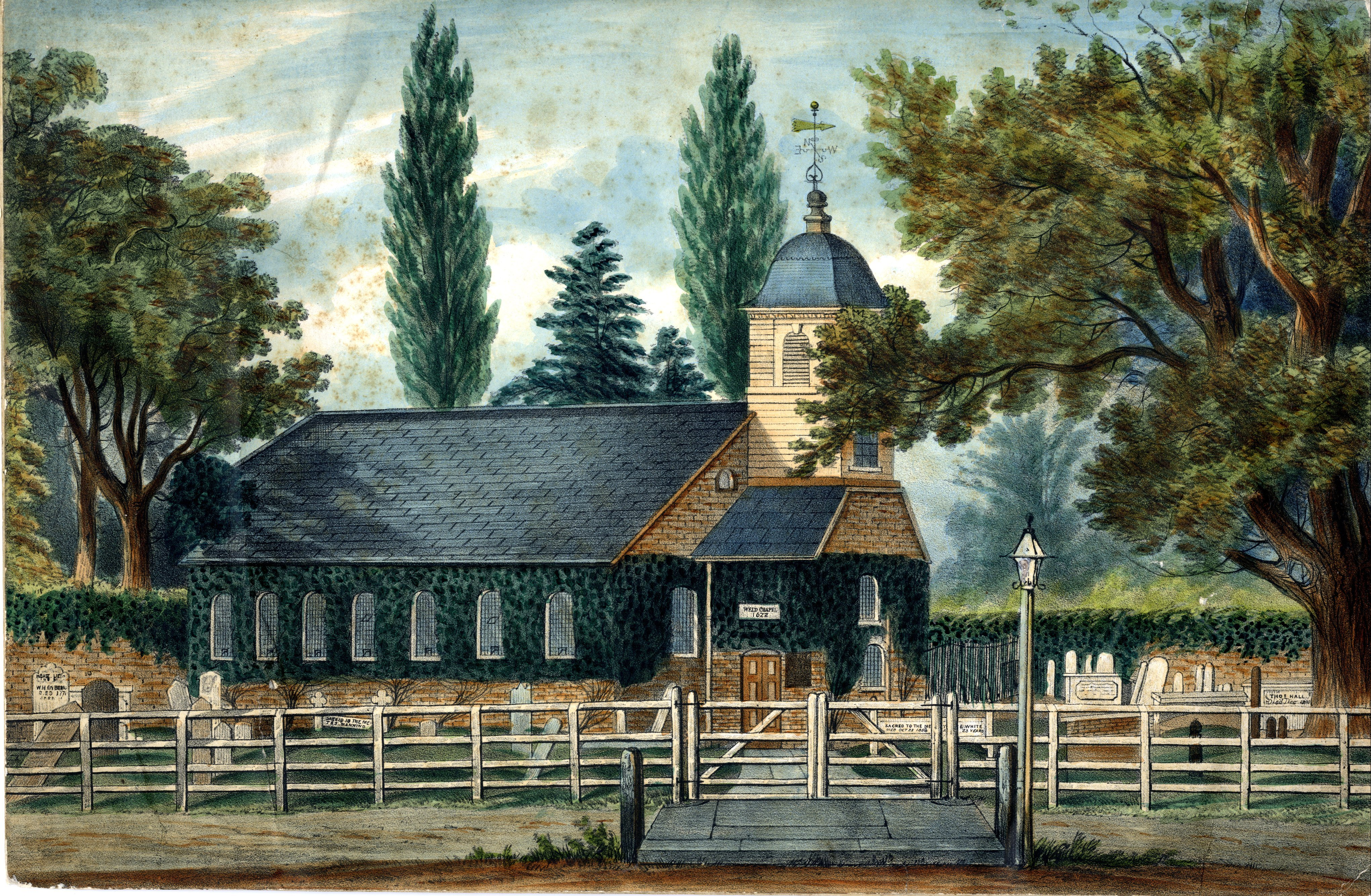 Weld Chapel coloured print